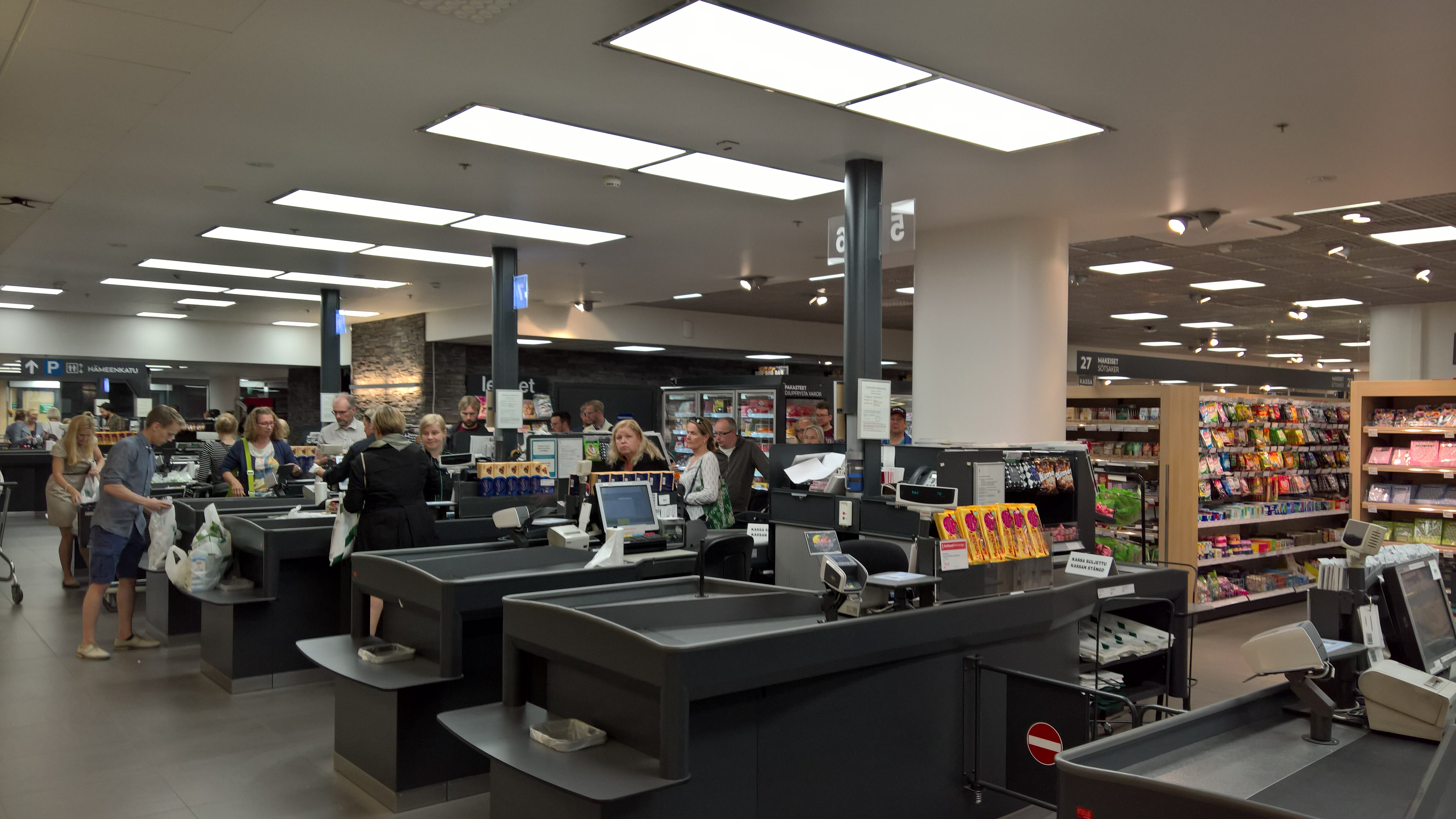 The cash desks in the Delicatessen of Stockmann Tampere a moment before the closing time of the department store in 2016.